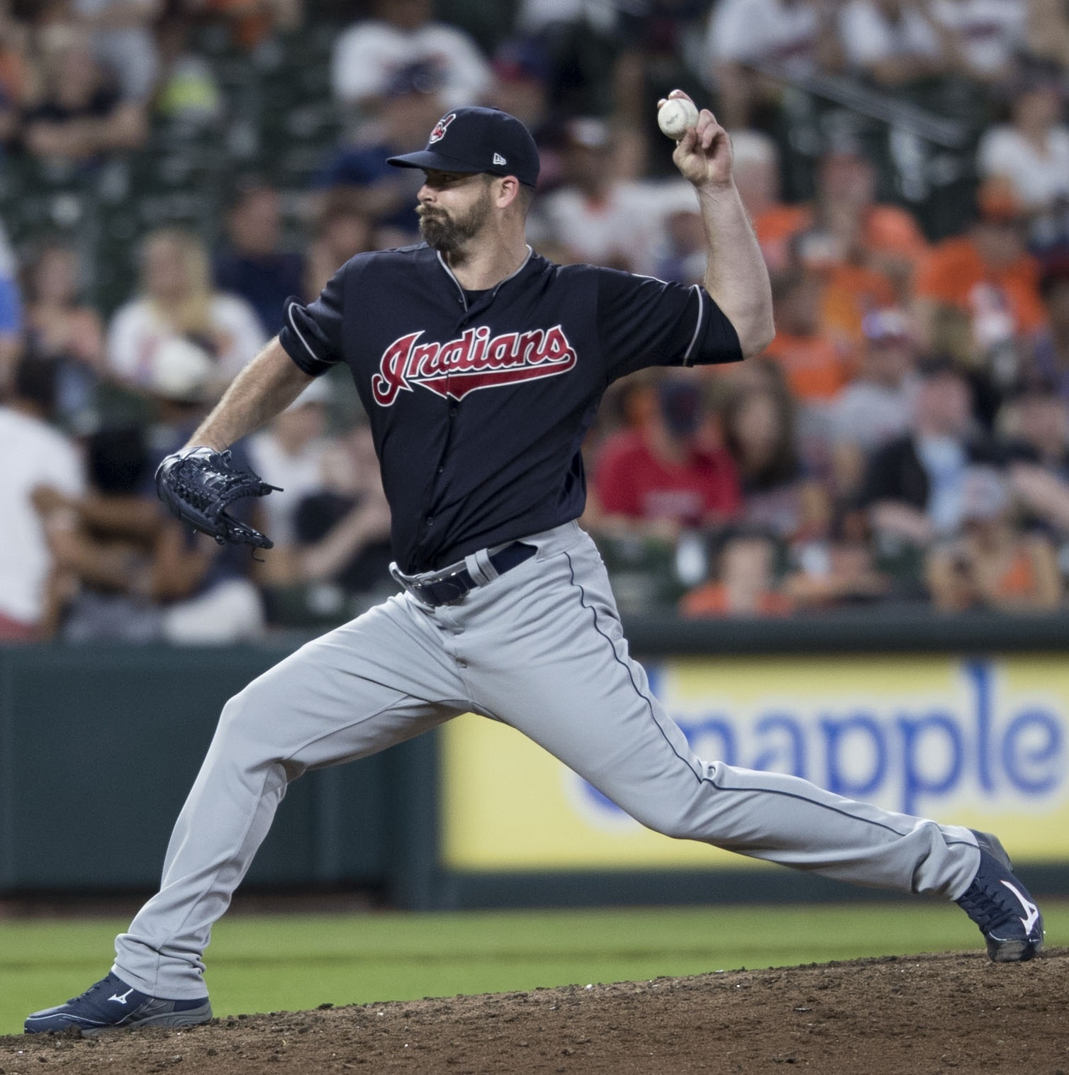 Indians at Orioles 6/20/17